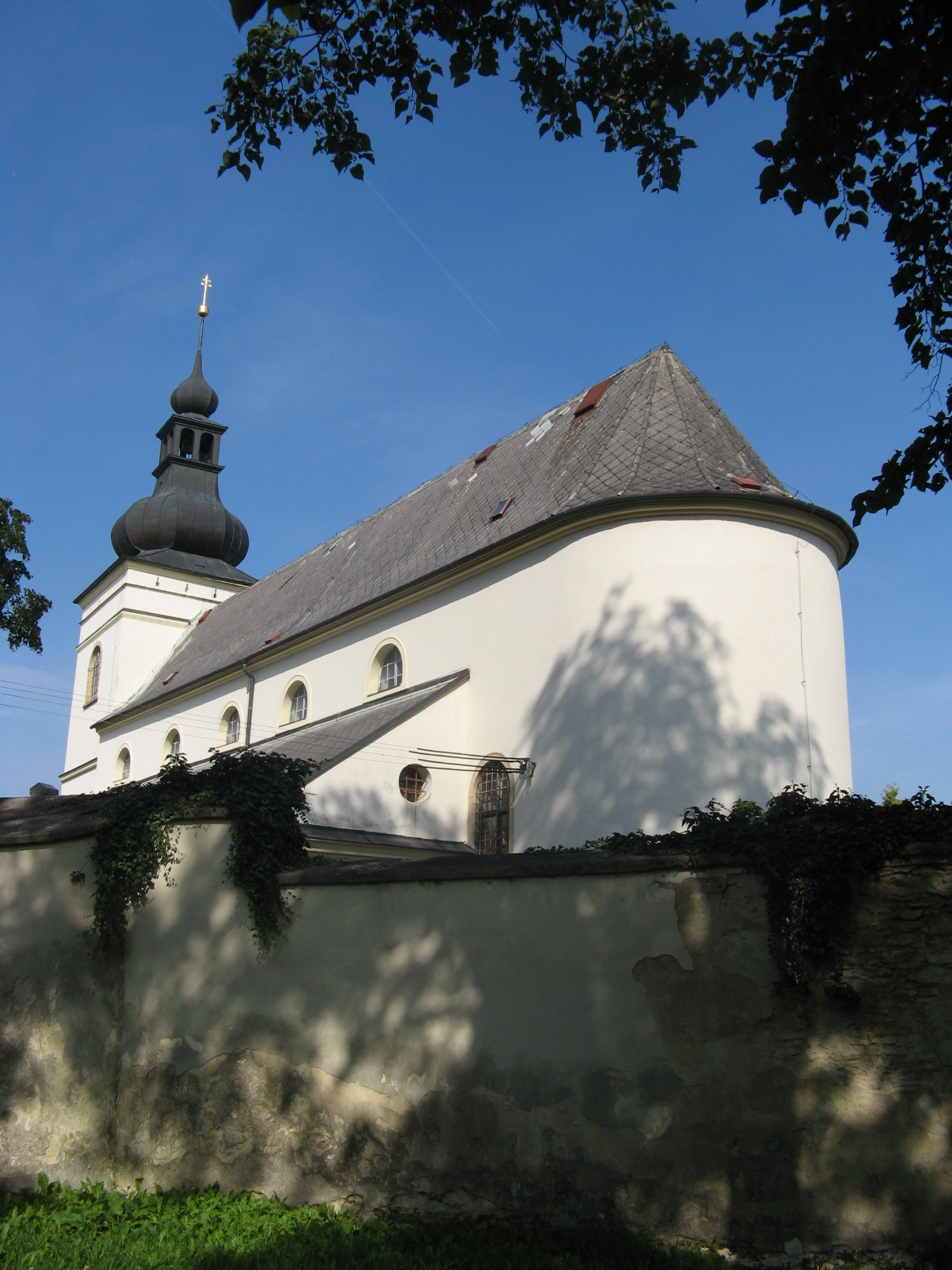 Church of St. Giles, Svitavy - Czech Republic